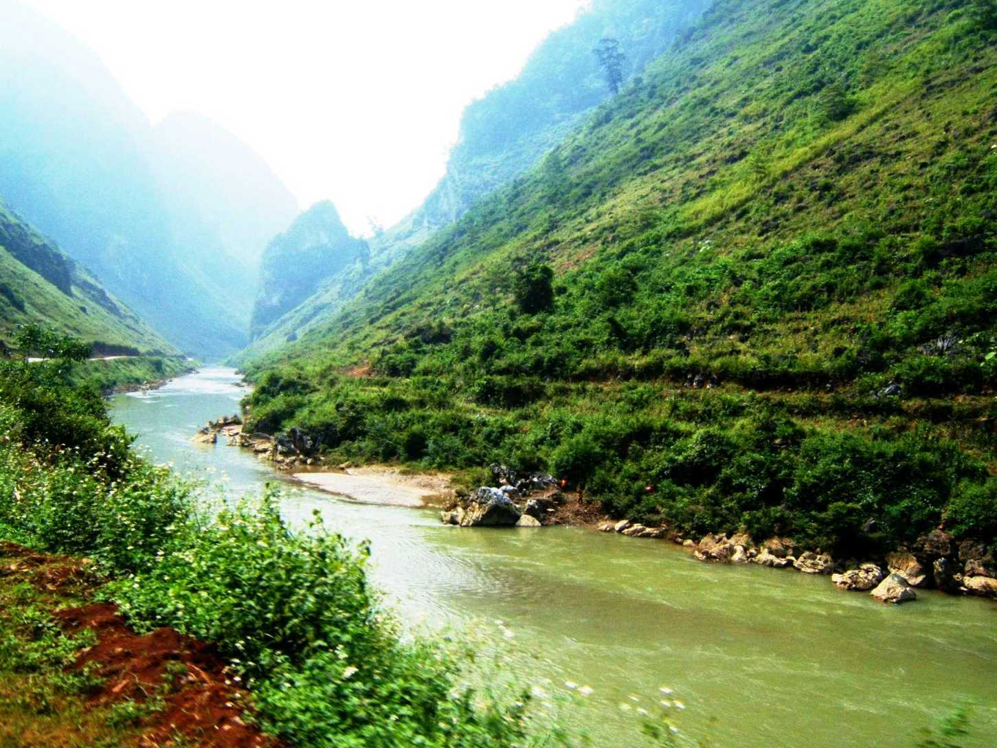 Mien River, the section in Can Ty commune, Quản Bạ District, Ha Giang province, Vietnam. Road 4C is along the river bank.